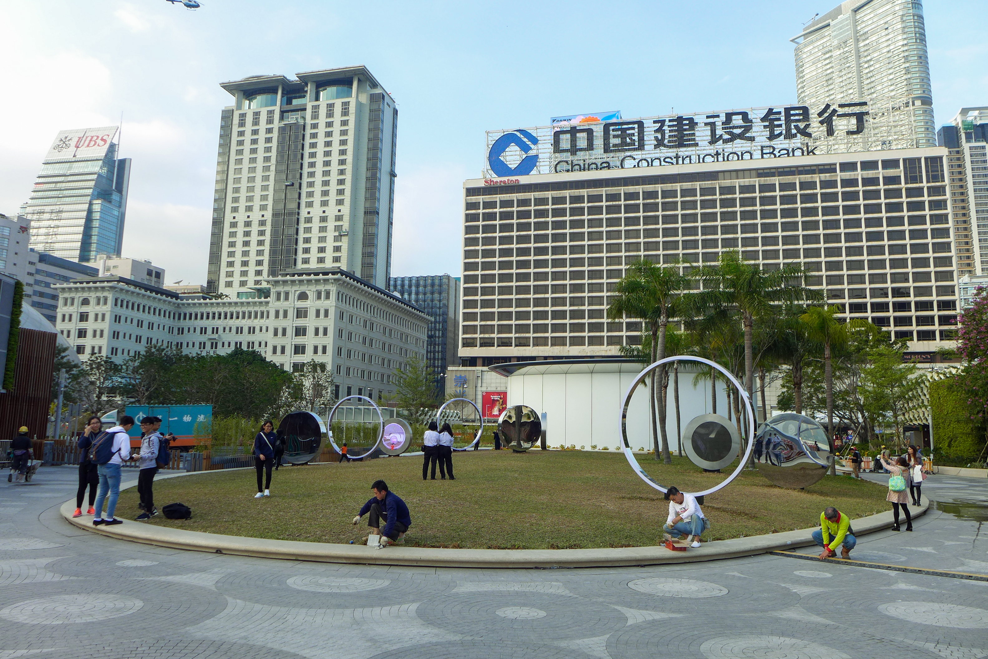 Salisbury Garden Central Lawn